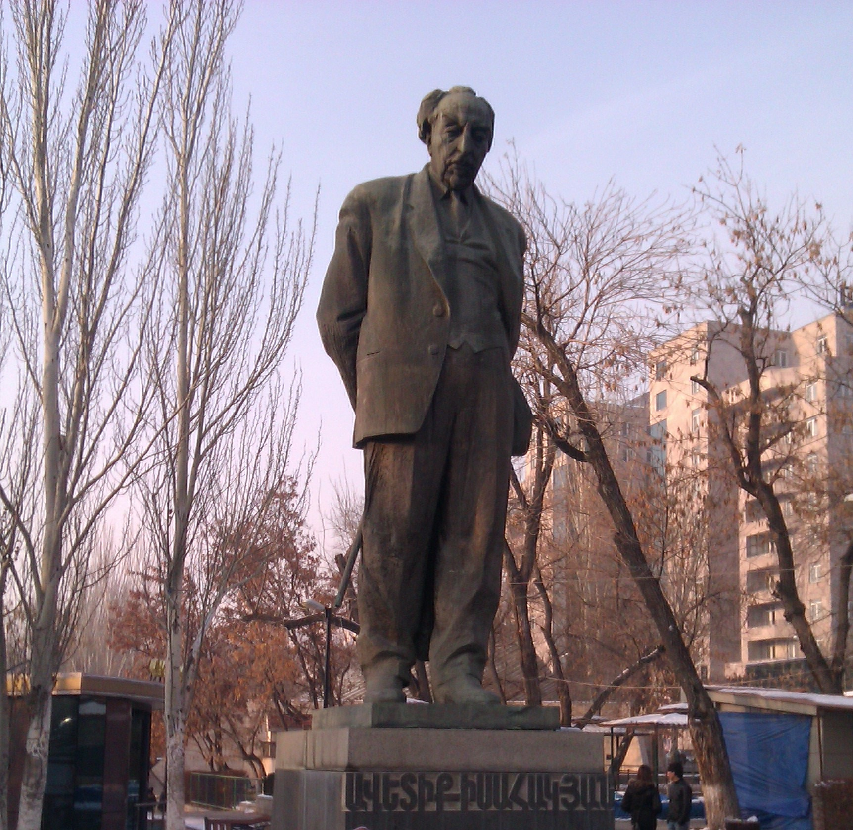 The statue of Avetik Isahakyan on Abovyan-Isahakyan streets intersection, Yerevan Armenia.